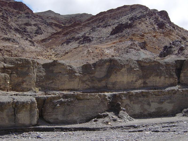 Cut and fill at the mouth of Mosaic Canyon